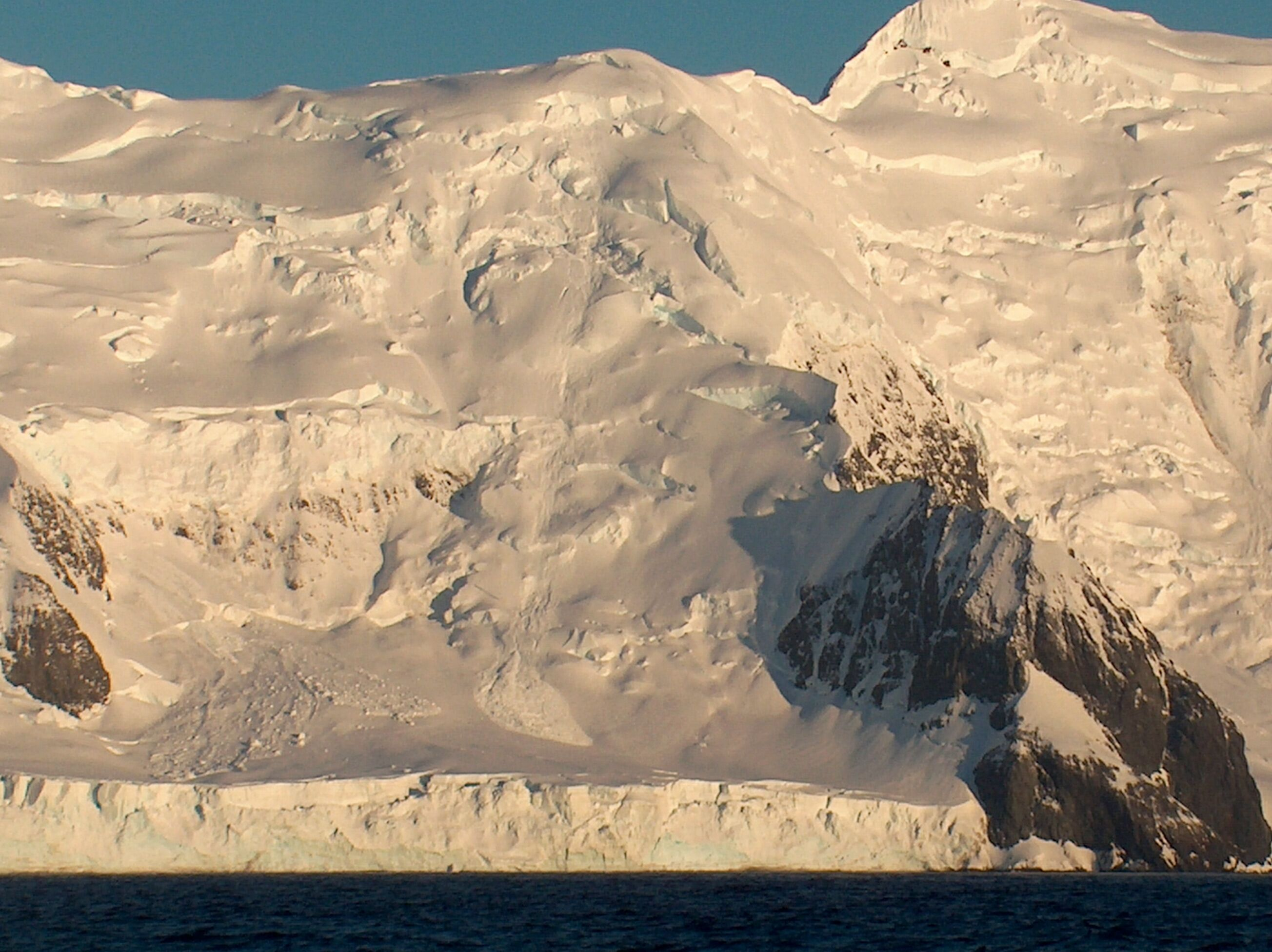 Author: Lyubomir Ivanov Source: the author Author: Lyubomir Ivanov Source: the author